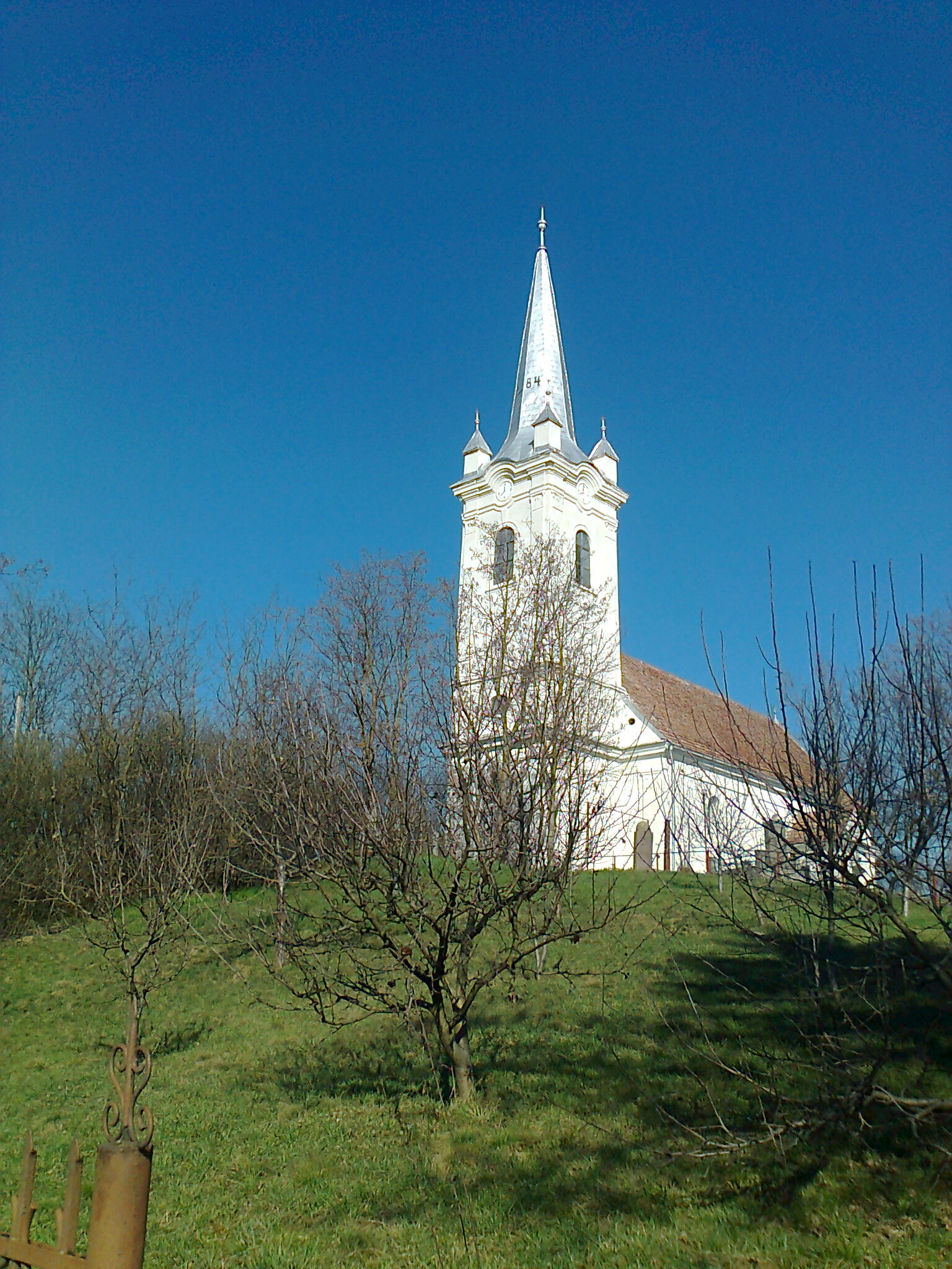 Reformed church in Nyárádkarácson (Craciunesti, Romania)